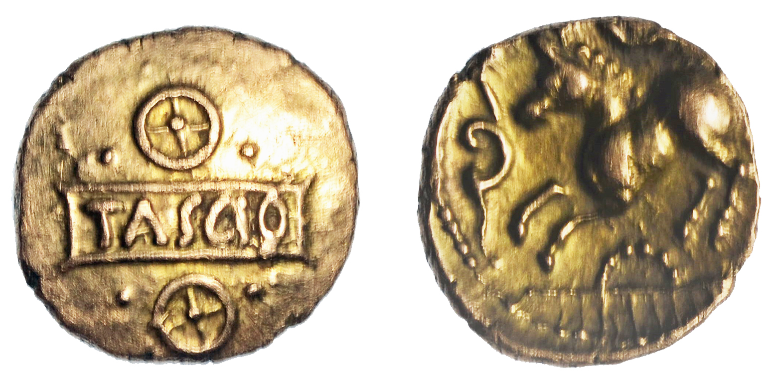 An Iron Age Gold quarter Stater of the Kent Region / Cantiaci, struck in the name of Tasciovanus, dating to the period c.AD 5-15, 'Sego Tascio Tablet' type. Obverse: TASCIO in central panel, wheel and two pellets above and below. Reverse: Horse left, ring holding pellets above, pelletal crescent below, vertical lines in exergue, a torc(?) before. As ABC, p. 44, no. 444, BMC, p. 116, no. 1646. Measurements: 12.3mm in diameter, 1.34gm in weight.